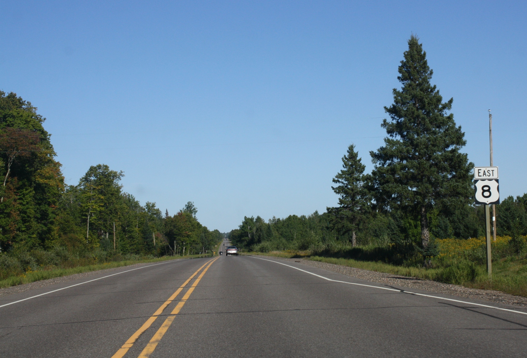 U.S. Route 8 as a two-lane highway in rural Lincoln County, Wisconsin through heavy forests.